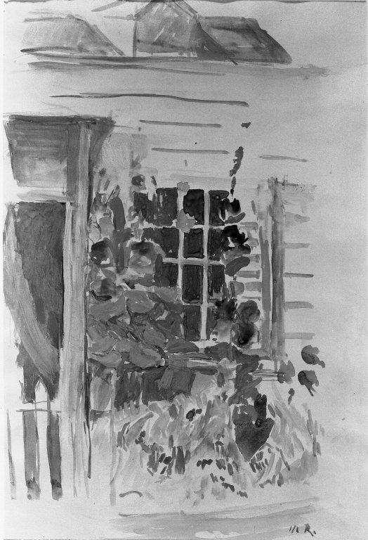 Identifier: brooklynmuseum-o11719-cottage-window Caption: Mary Gamble Rogers (American, 1882-1920). Cottage Window. Watercolor, . Brooklyn Museum, John B. Woodward Memorial Fund, 21.49 Creator: Mary Gamble Rogers Credit: John B. Woodward Memorial Fund Mediatype: image Medium: Watercolor Rights: No known copyright restrictions Publicdate: 2010-05-04 17:42:19 Addeddate: 2010-05-04 17:42:19 Keywords: art; American Art